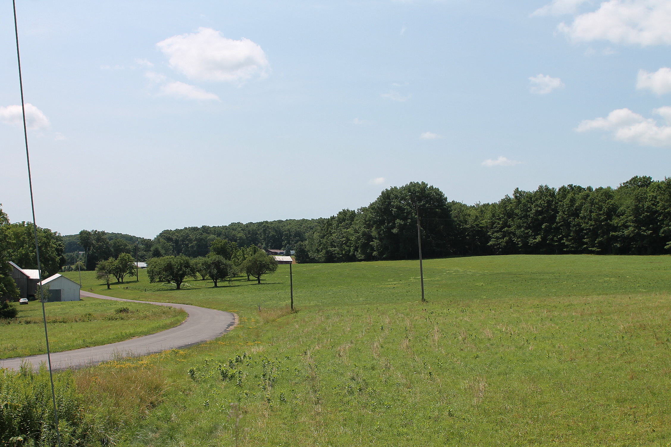 Scenery of Jordan Township, Lycoming County, Pennsylvania